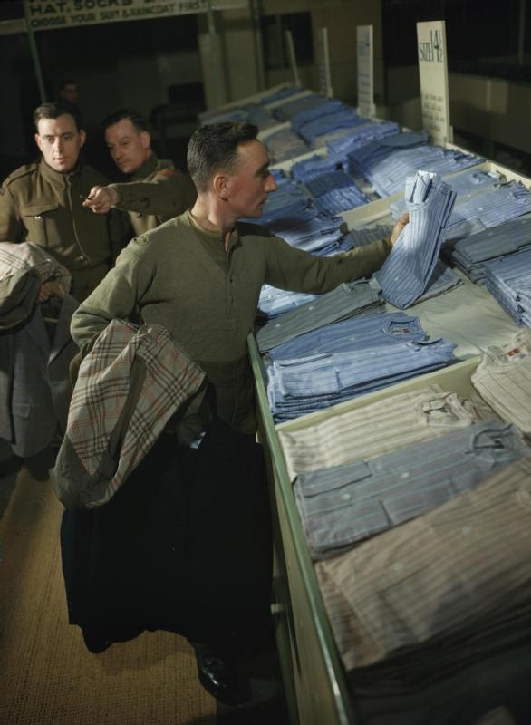 Scenes at a Demobilisation Centre in Britain, 1944 A demobbed soldier selecting a shirt at a demobilisation centre.